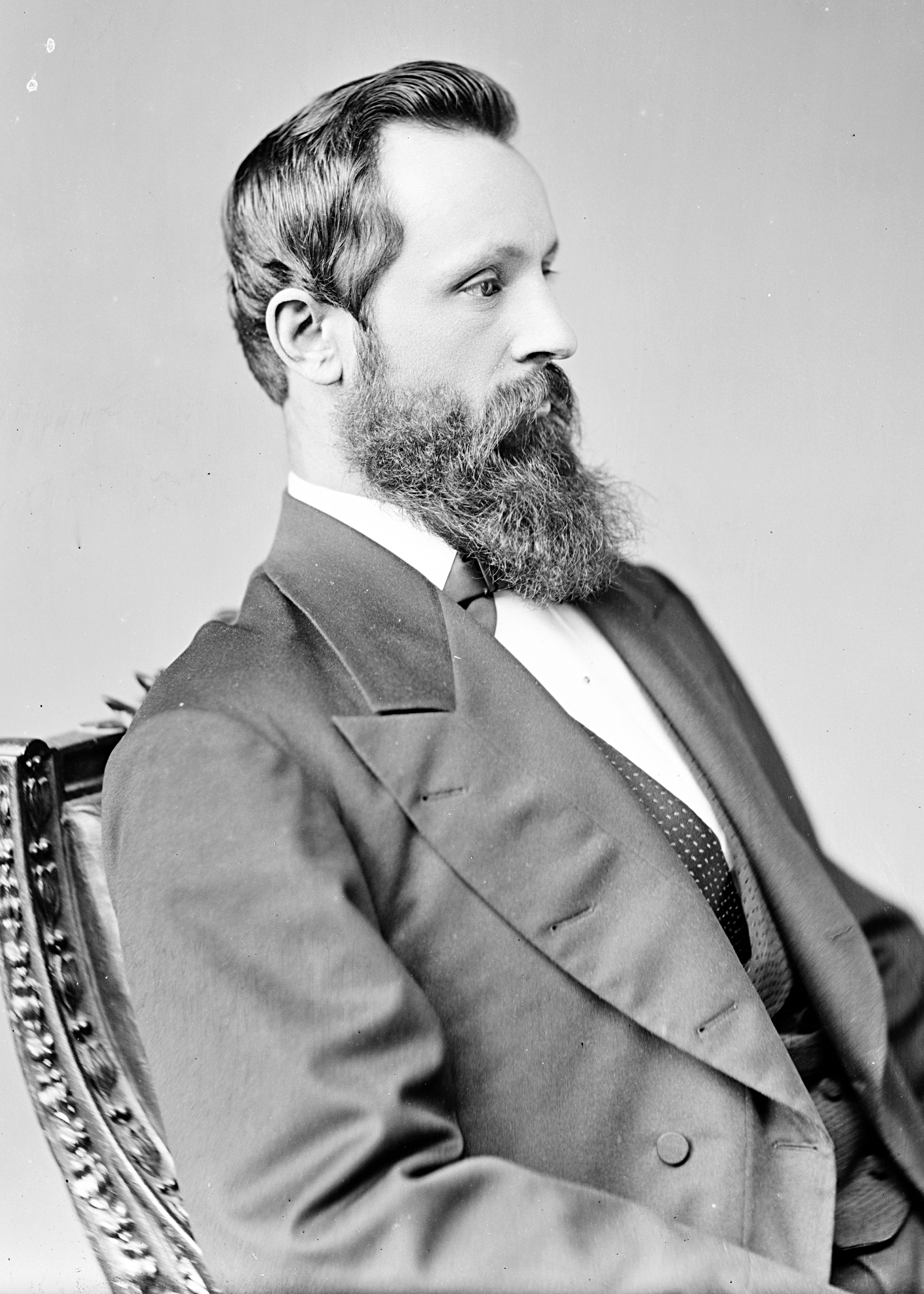 James Soloman Biery, US Representative from Pennsylvania